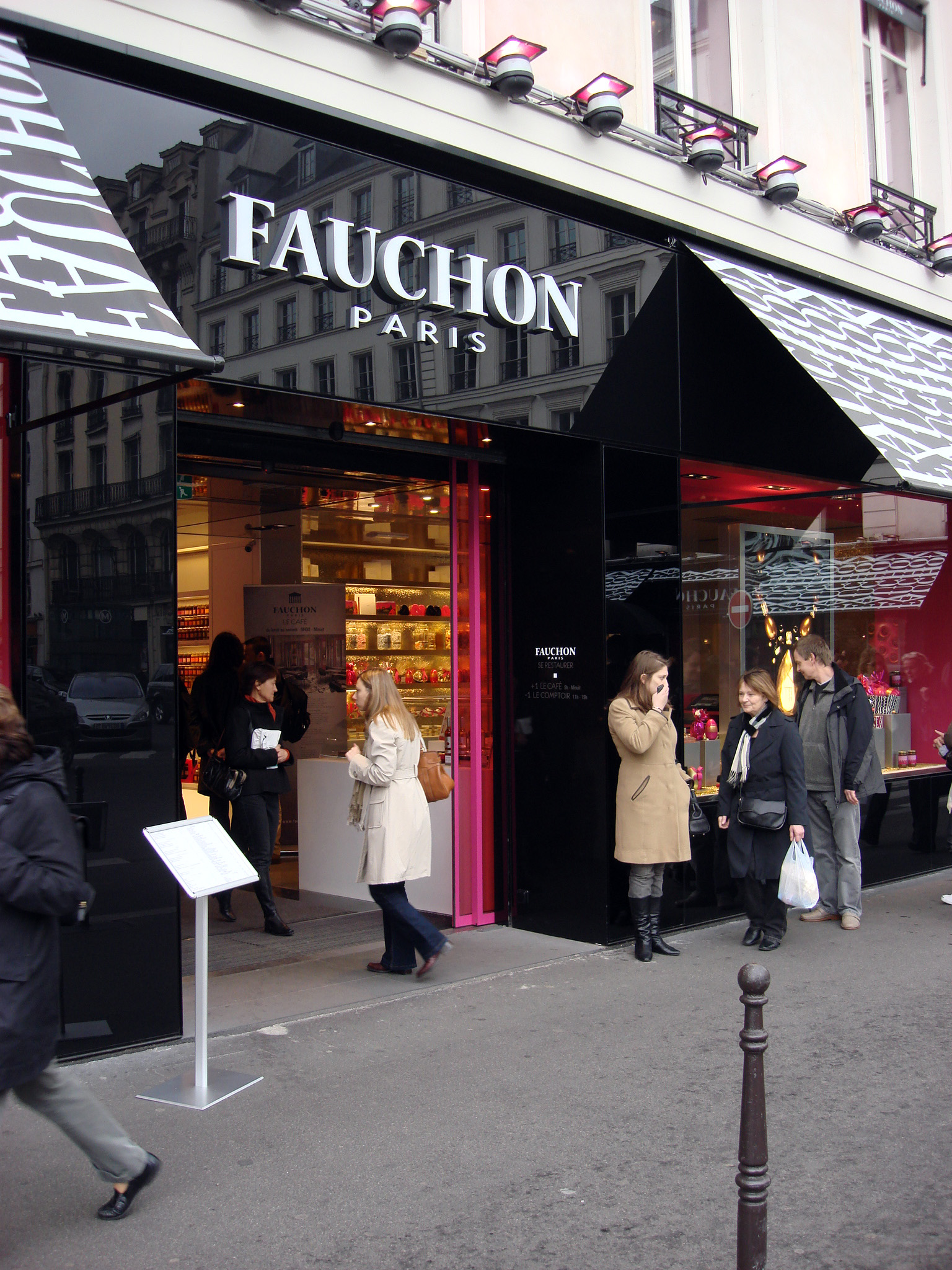 Fauchon shop in Paris